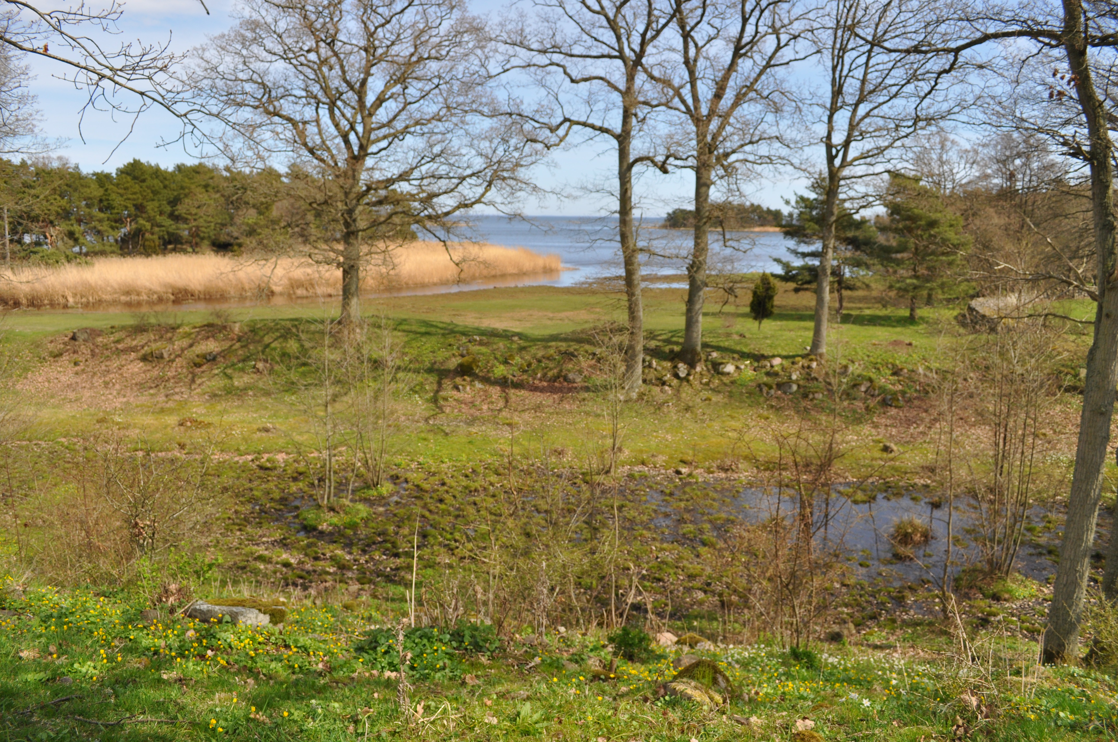 Brömsehus. View from topp of the place towards Kalmar Strait (Kalmar sund)